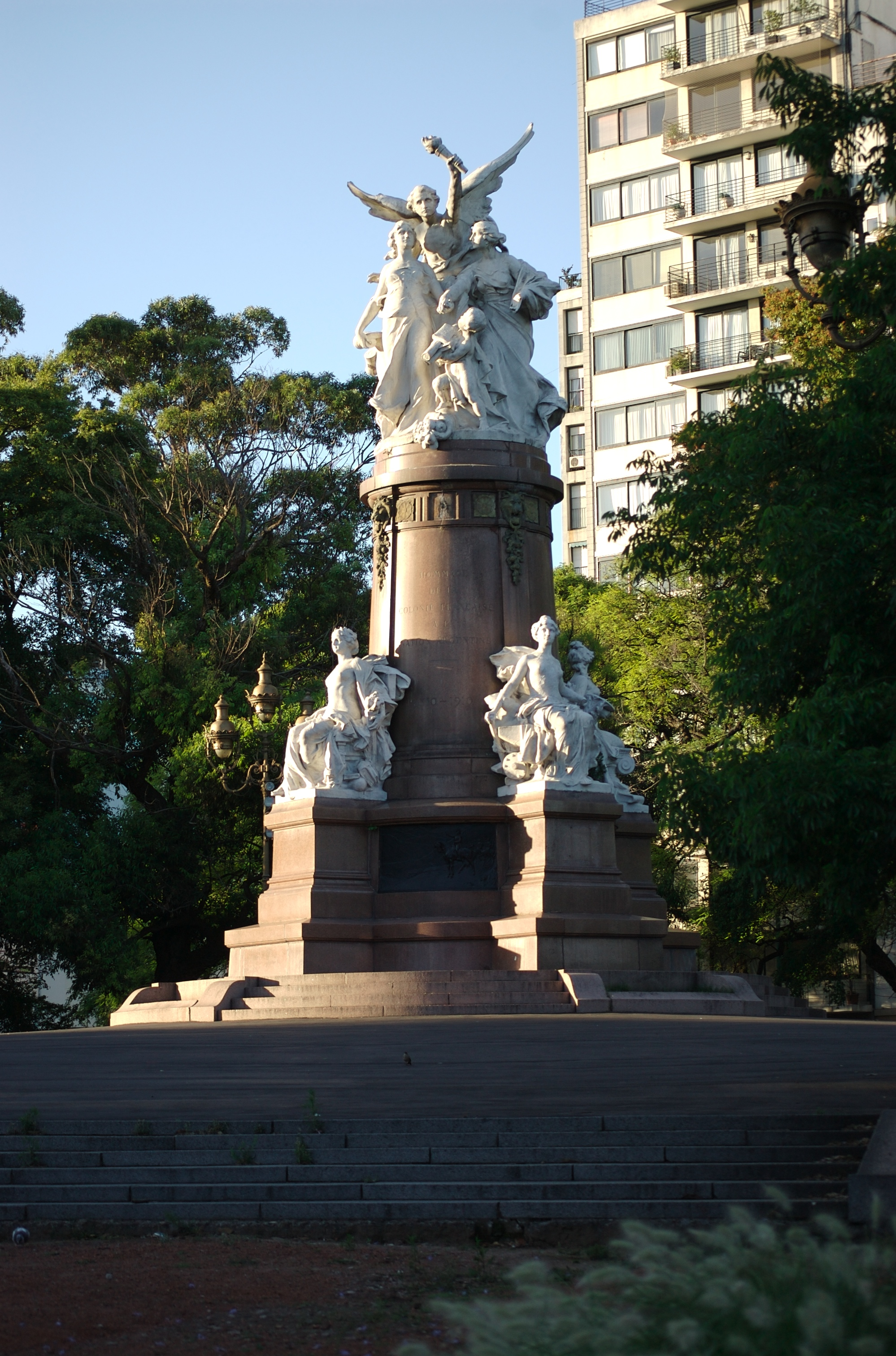 Plaza Francia statue